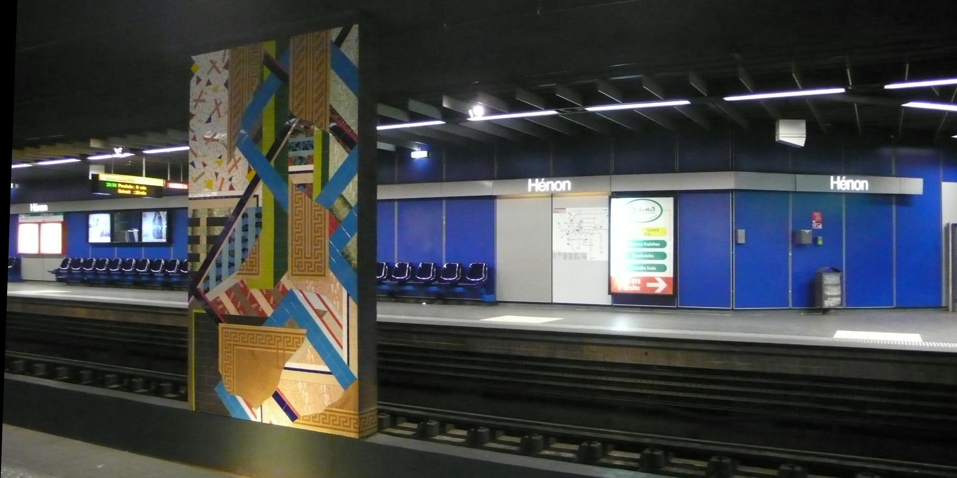 Metro station Hénon (F-69001, Lyon). Line C